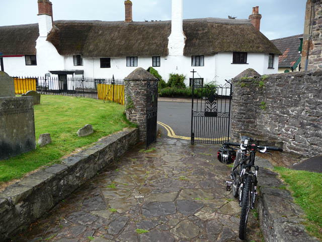 Entrance to Porlock churchyard Looking outwards to High Street.